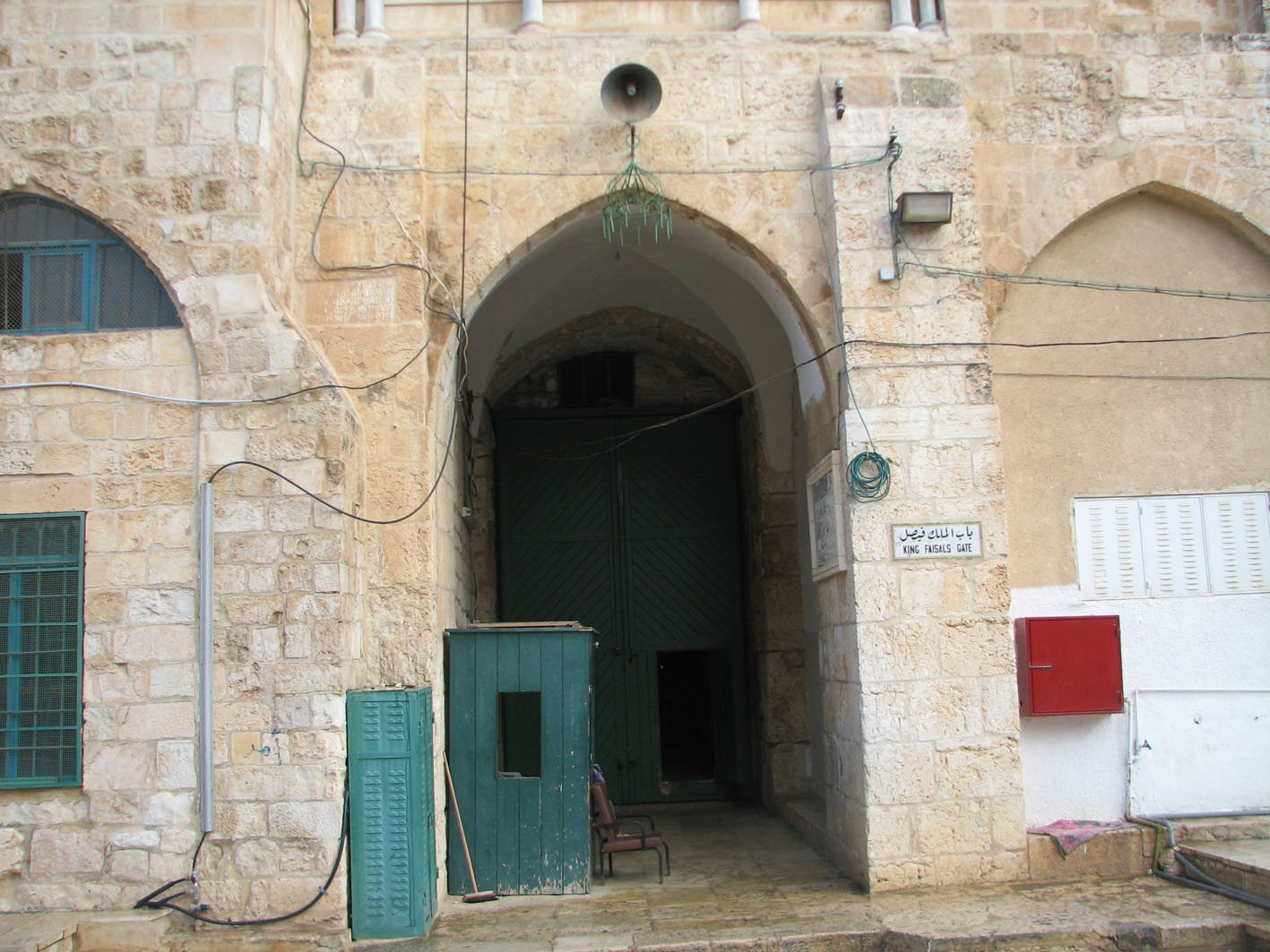 Al-Aqsa Mosque